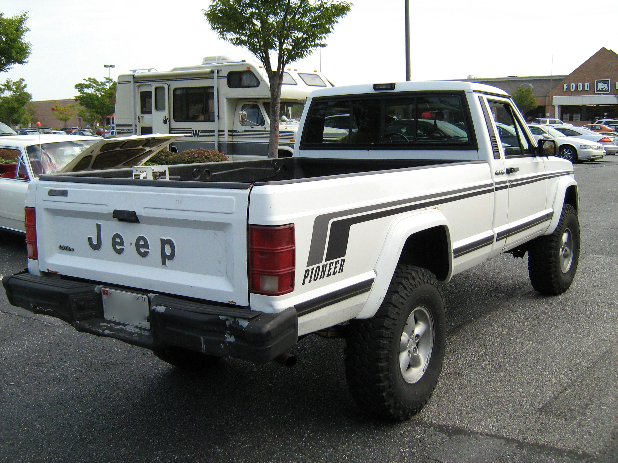 Jeep Comanche Pioneer long-bed pickup truck finished in white. Right rear view.